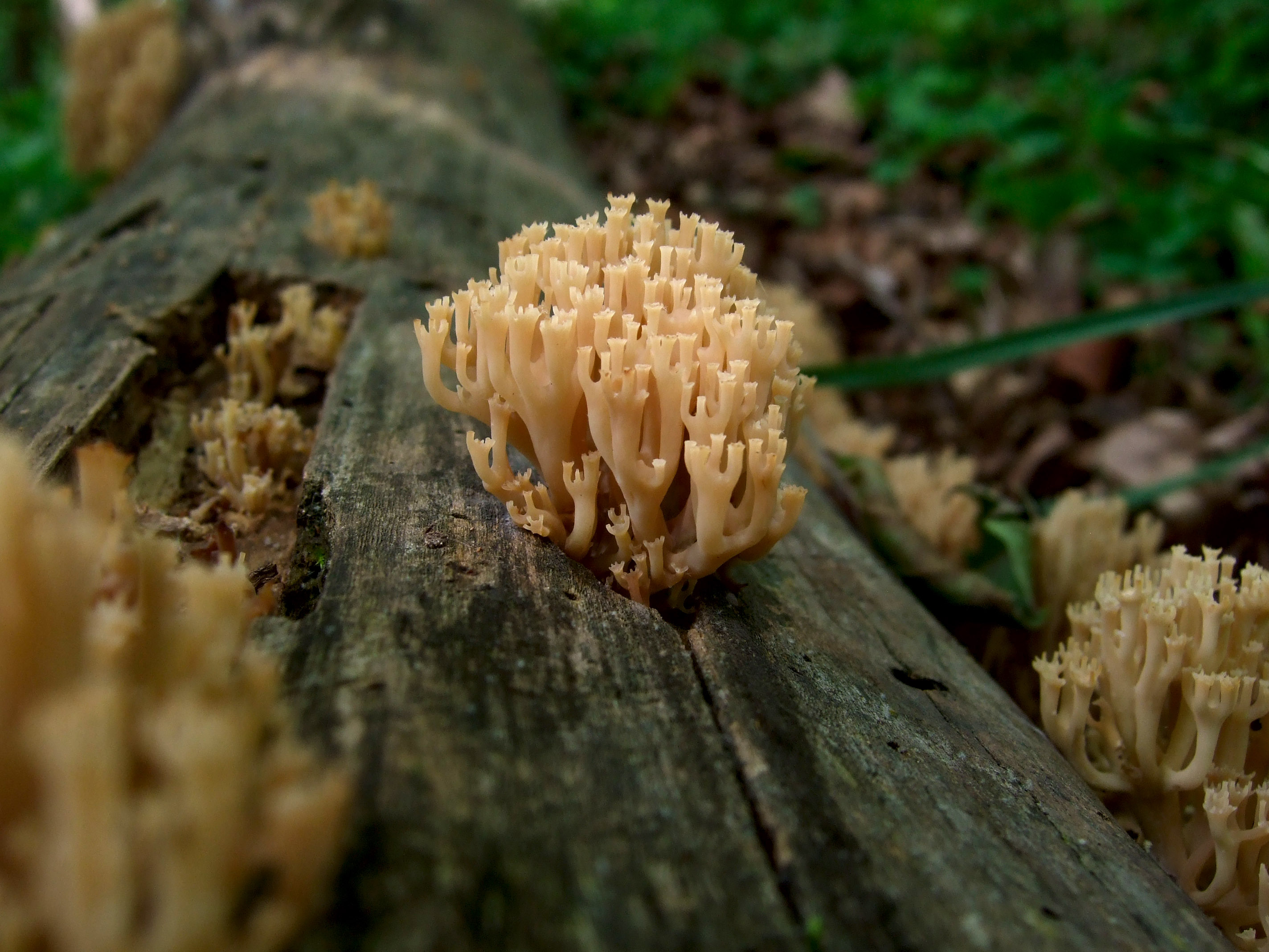 Artomyces pyxidatus (Pers.) Jülich Image location: Tuscarawas Co., Ohio, USA Some kind of coral fungus [admin – Sat Aug 14 02:07:01 +0000 2010]: Changed location name from ‘Tuscarawas County, Ohio, USA’ to ‘Tuscarawas Co., Ohio, USA’ Recognized by sight For more information about this, see the observation page at Mushroom Observer.